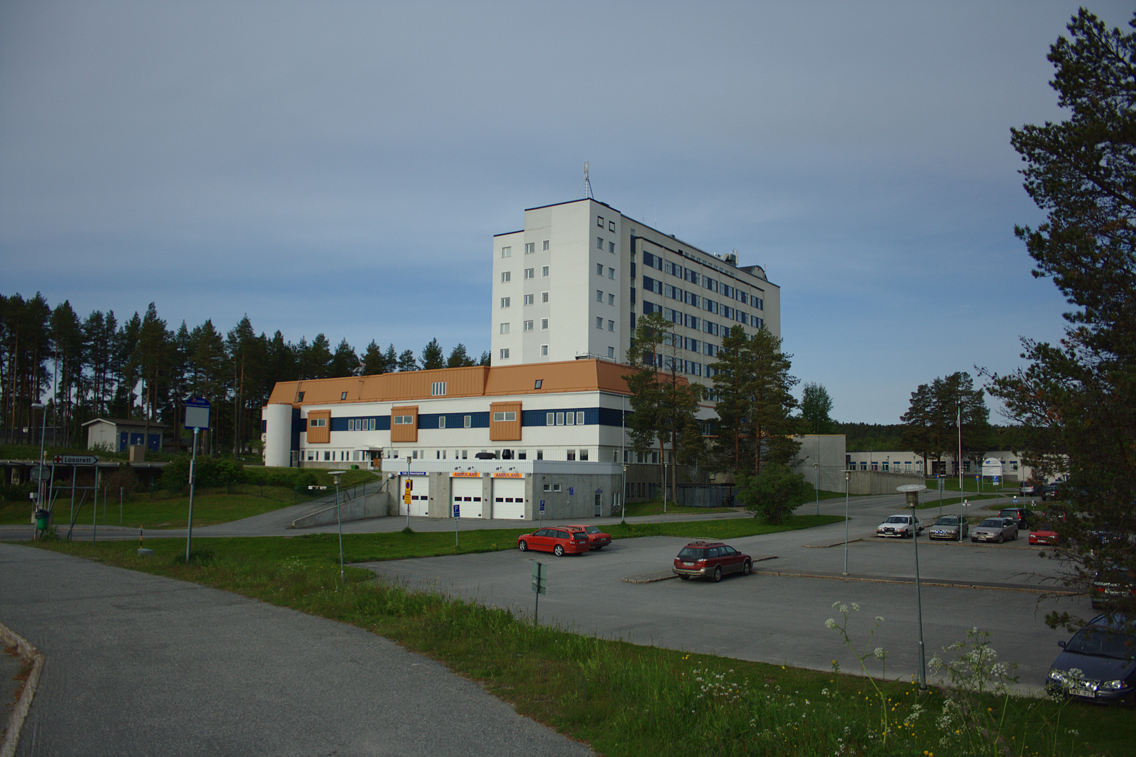 Lycksele hospital